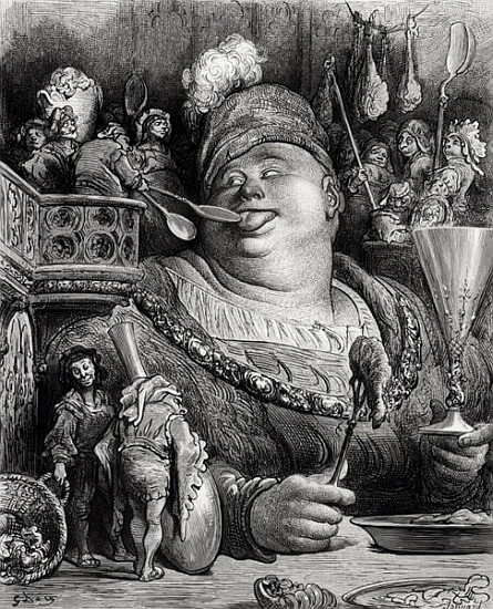 Gargantua's meal (by Gustave Doré)